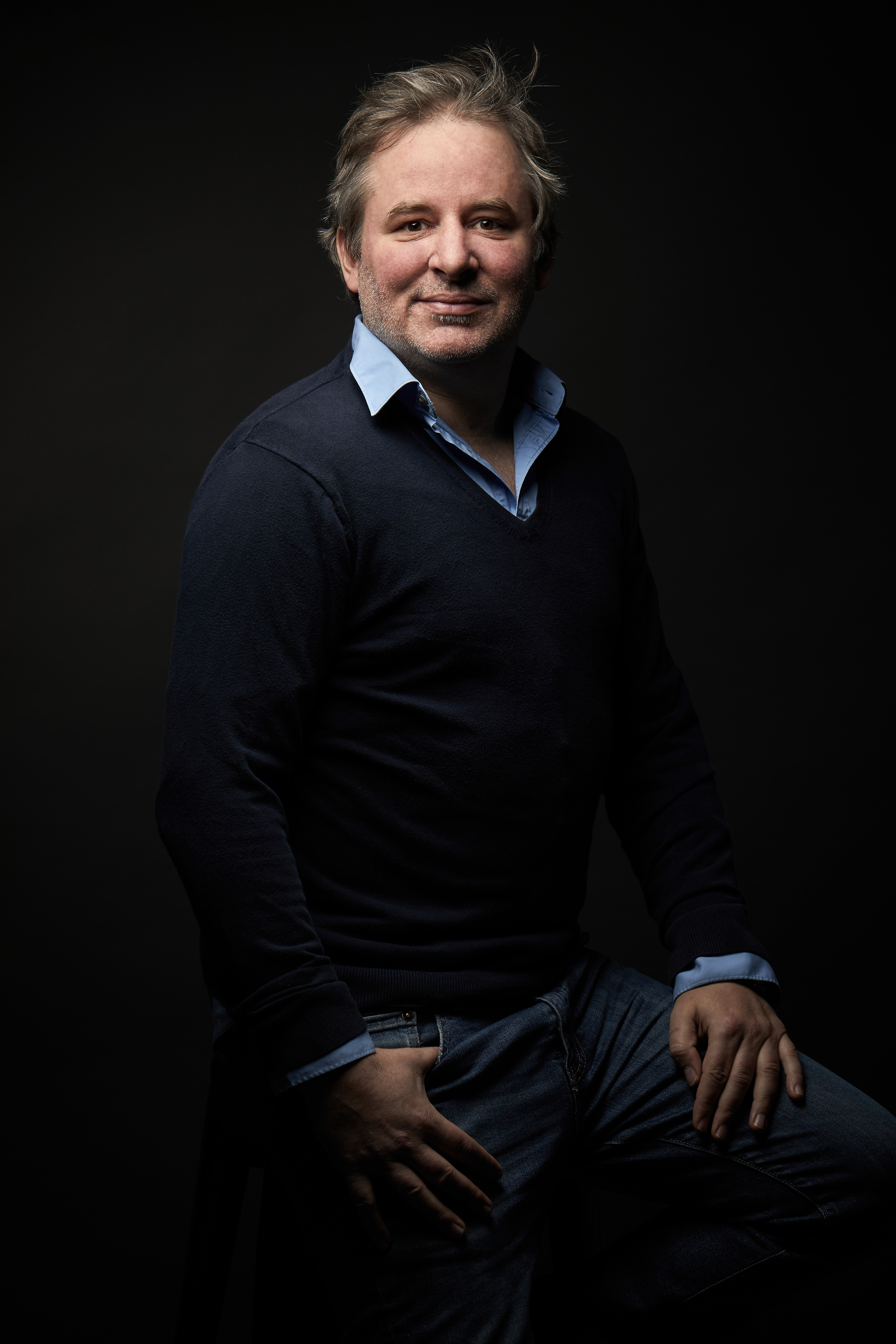 Luki Frieden